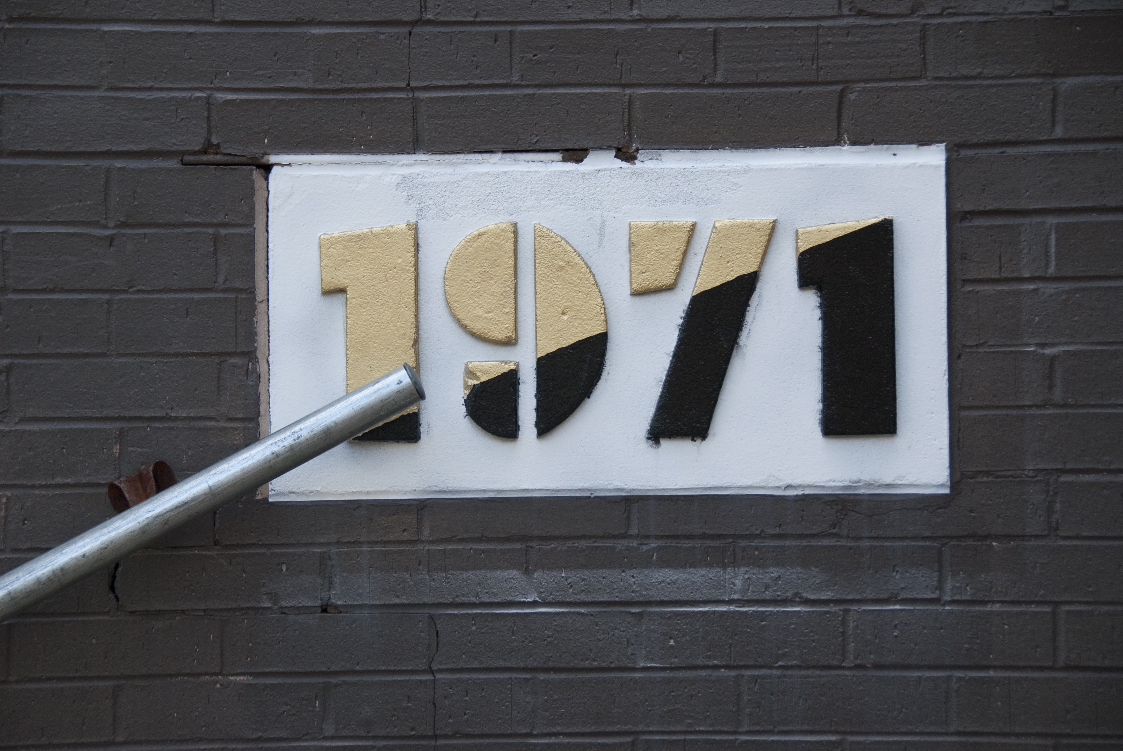 University City High School (Philadelphia) cornerstone, dated 1971, painted black & gold.